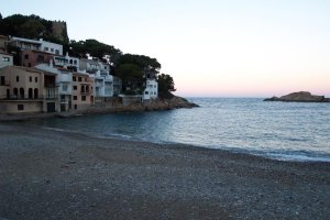 Sa Tuna, beach in Begur (picture taken in December 2004)